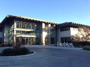 The main entrance of Infoblox Inc. headquarters campus in Santa Clara, California